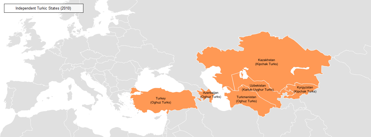 Map of Independent Turkic States in Central Asia, Eurasia and Asia Minor as of 2012.